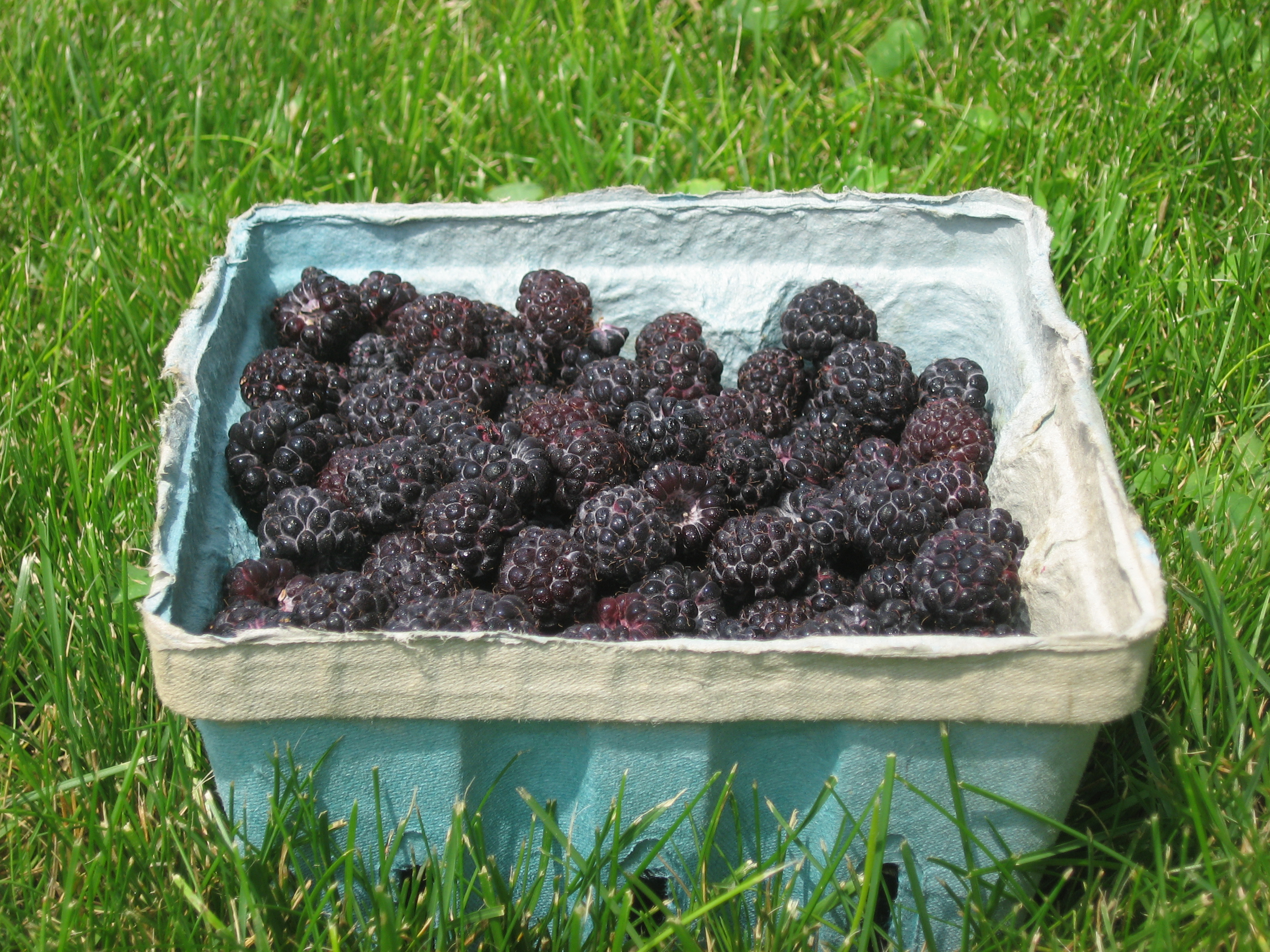 A pulp basket full of recently-picked black raspberries, sitting in the grass behind my house.